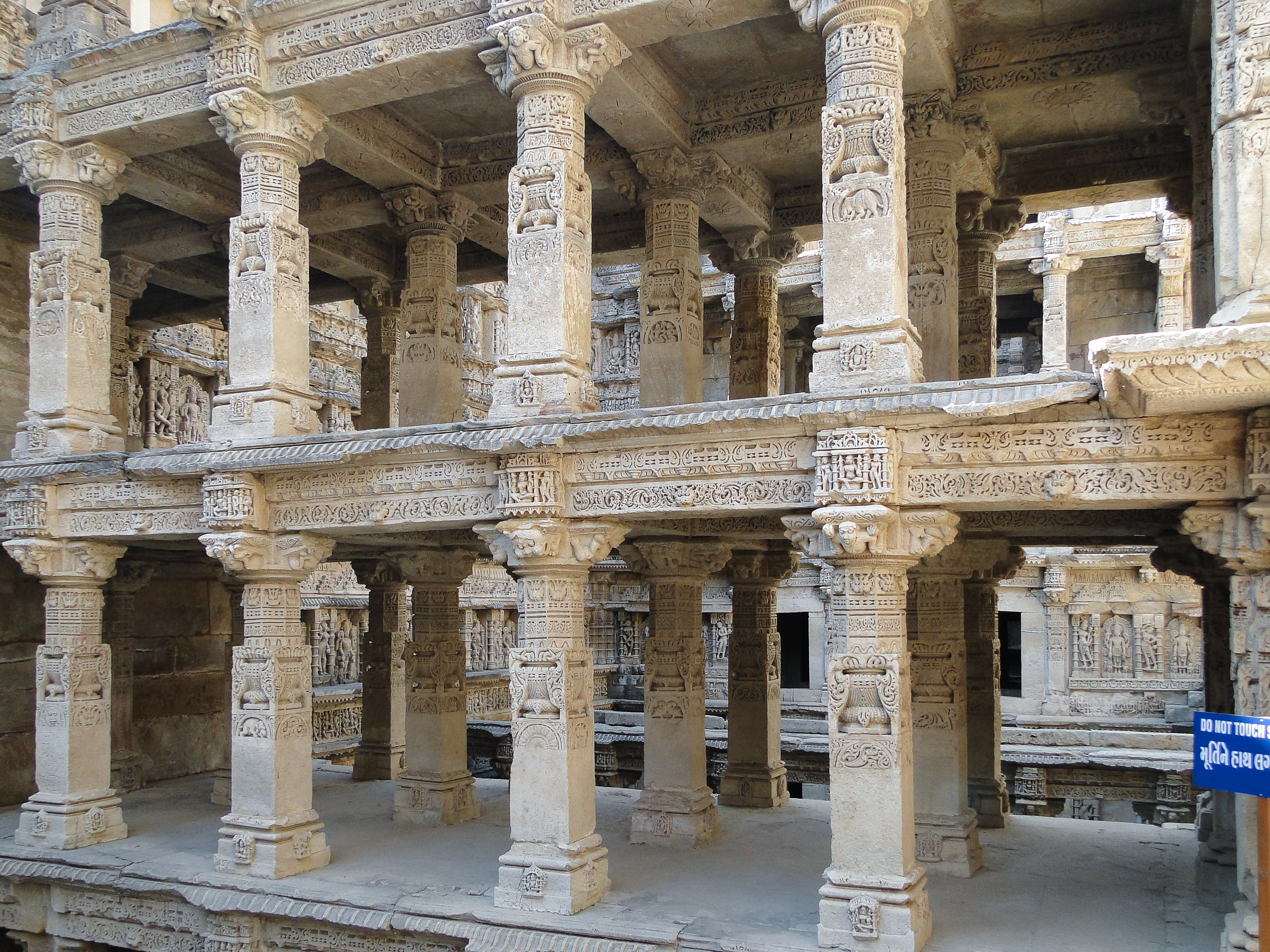 Rani ki vav, Patan, India